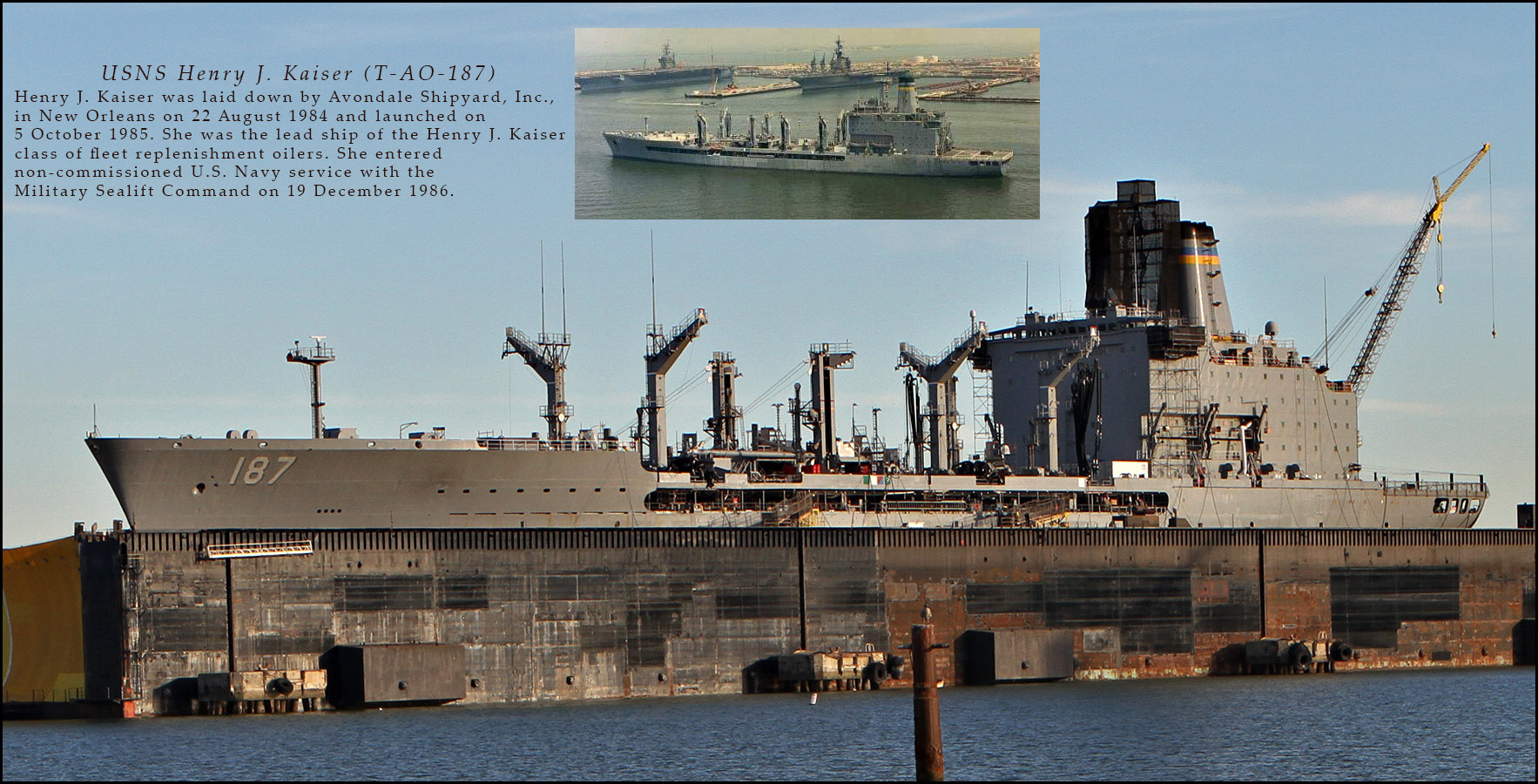 oiler2394.jpg USNS Henry J. Kaiser (T-AO-187) a navy oiler in SF Dry Dock, Nov. 5, 2014, Ken Papai photo